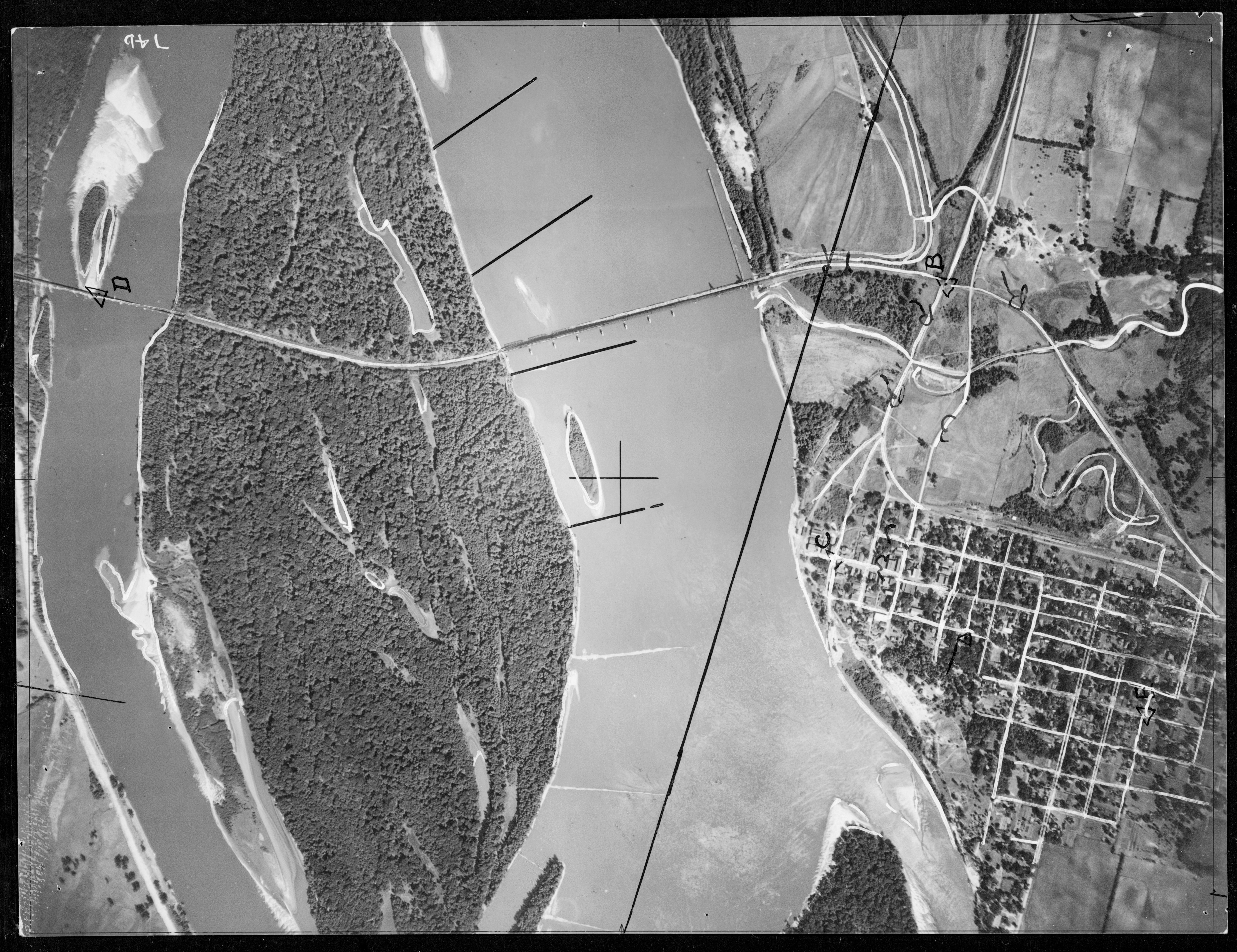 Keithsburg Rail Bridge over the Mississippi River (1927) — with Keithsburg in Mercer County, Illinois, and Louisa County, Iowa. US Army Corp of Engineers aerial photo, flown north to south. Image rotated from original to make north up. The 1909 vertical lift bridge was abandoned in 1971.